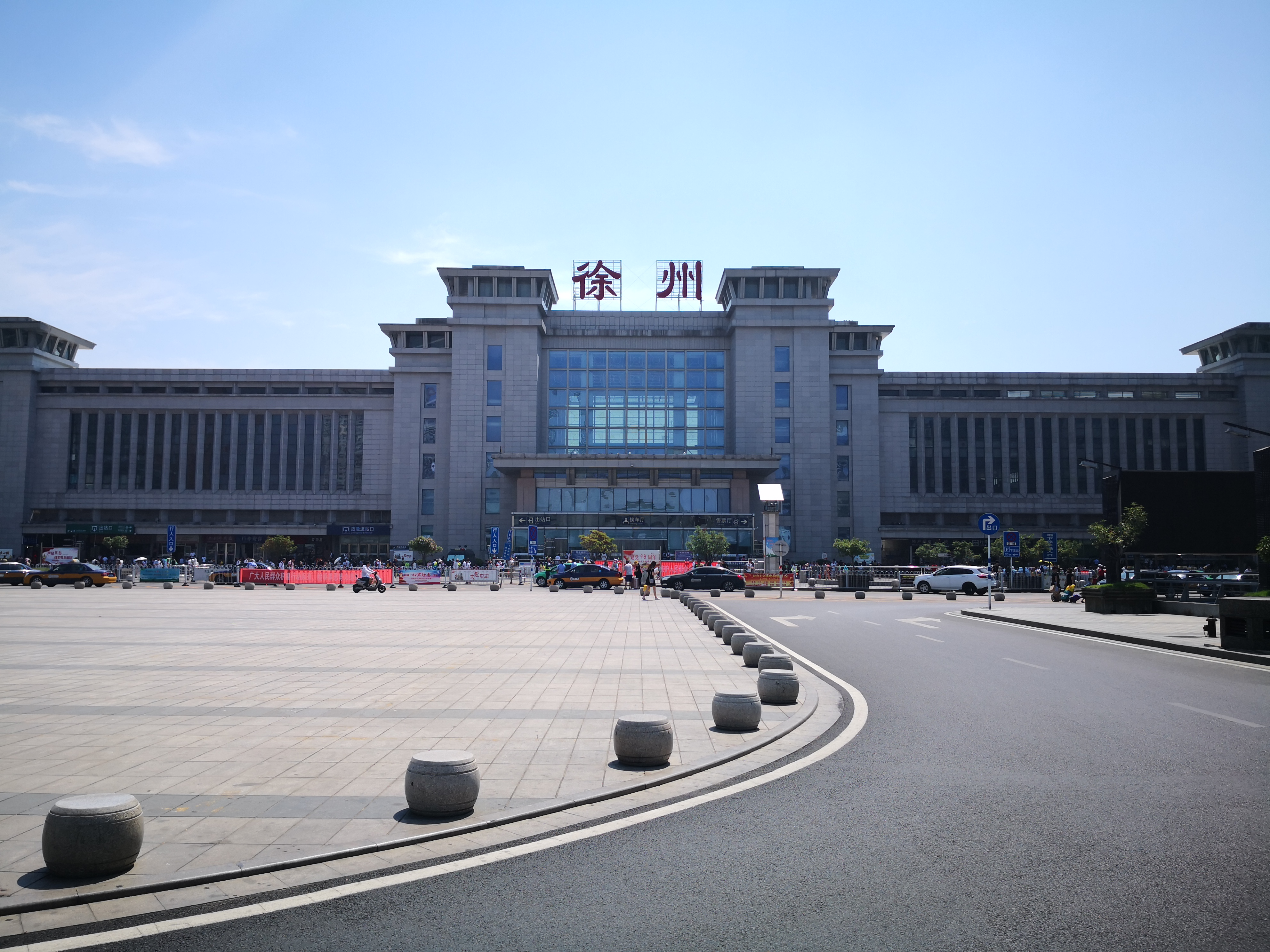 Xuzhou railway station